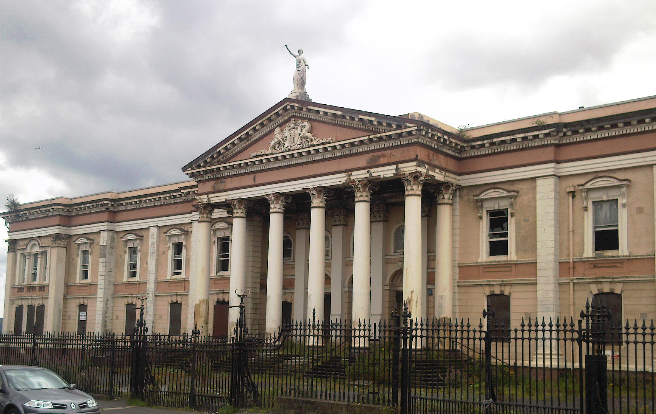 Crumlin Road courthouse, Belfast, August 2011